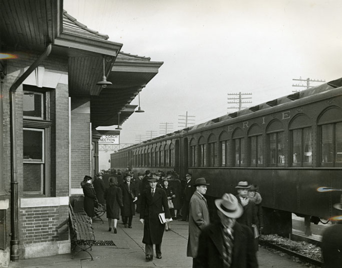 Rutherford railroad station Photographer: Samuel Epstein